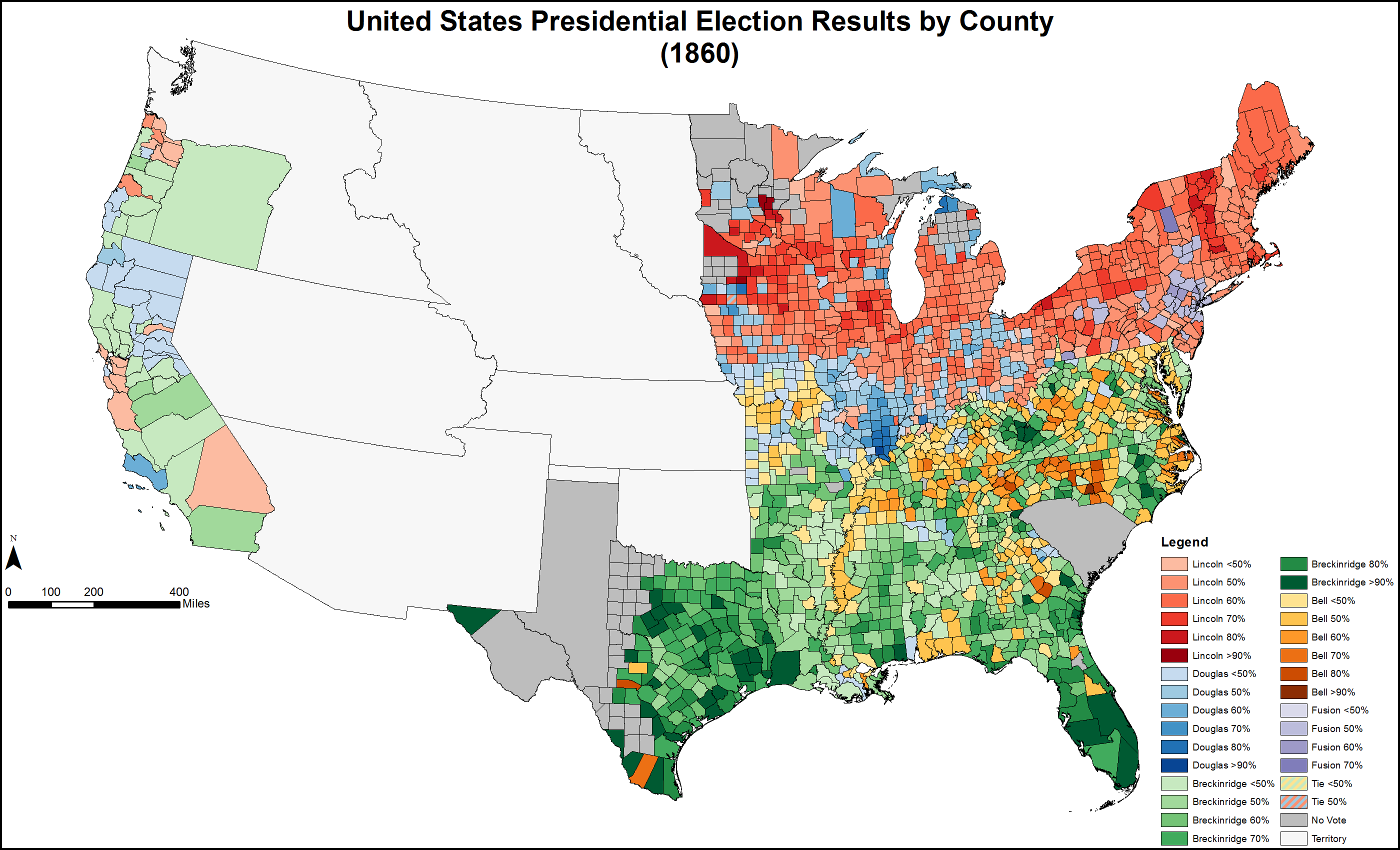 Presidential election results by county (1860). Colors based on Colorbrewer 2.0.